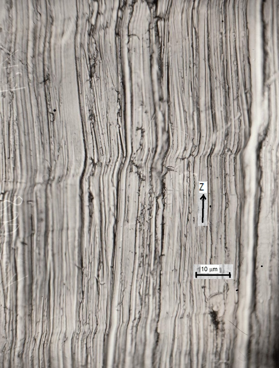 Grind grrooves on a specimen of CrNiTi-steel after pulsating strain. Traces of plastic deformation visible as altering of the direction of the grooves.